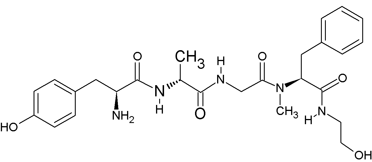 Chemical structure of DAMGO